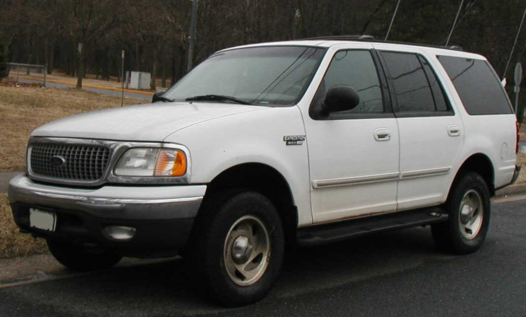 1999-2002 Ford Expedition photographed in College Park, Maryland, USA.